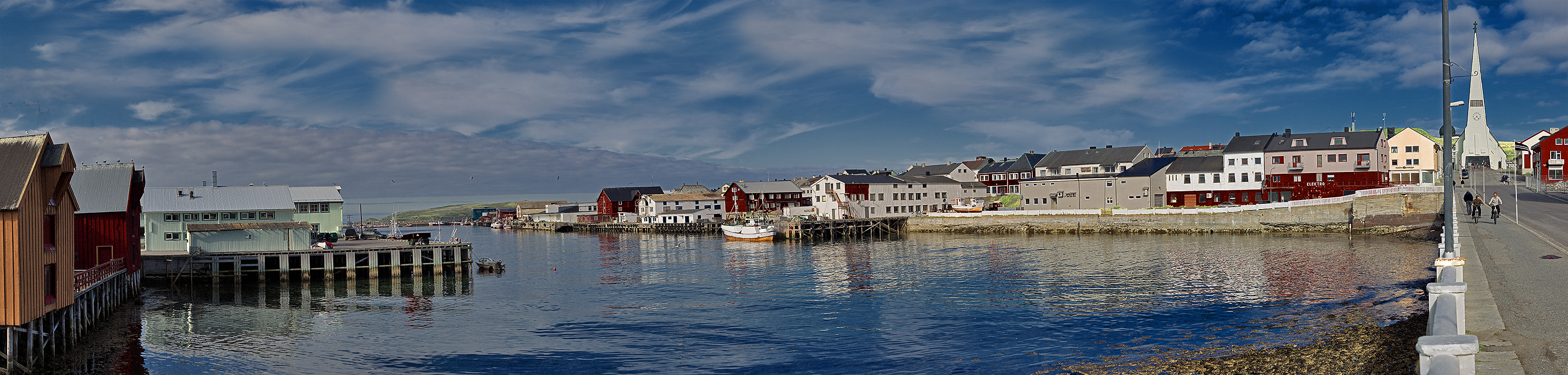 Vardø